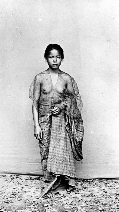 Repronegative. A woman from Makassar wearing traditional clothes, South Sulawesi